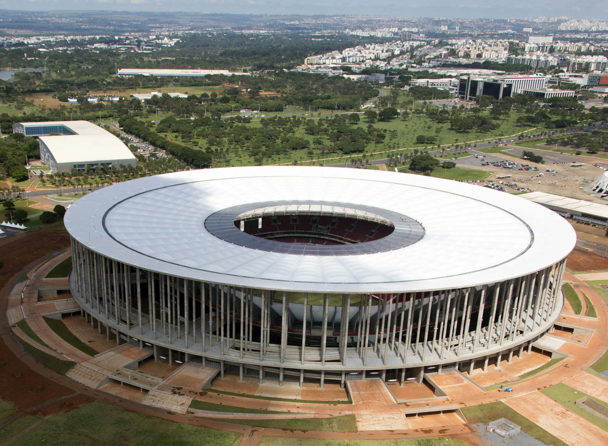 Estádio nacional de Brasília, Brasil